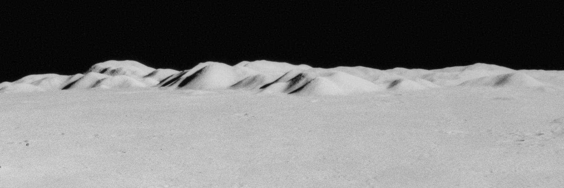 Highly oblique view facing north of Promontorium Agassiz, Promontorium Deville, and Mons Blanc, northeastern Mare Imbrium, on the moon.